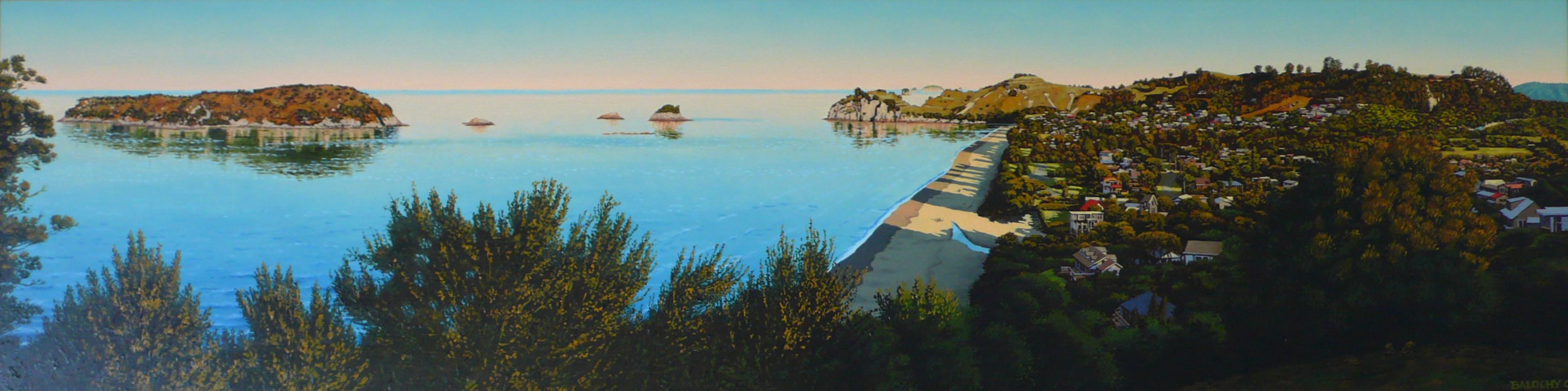 Evening Light from painter George Baloghy.